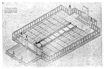 Mausoleum of Jewish Fighters for independence of Poland - final project